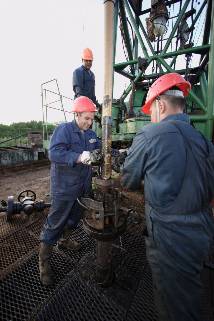 Tatneft